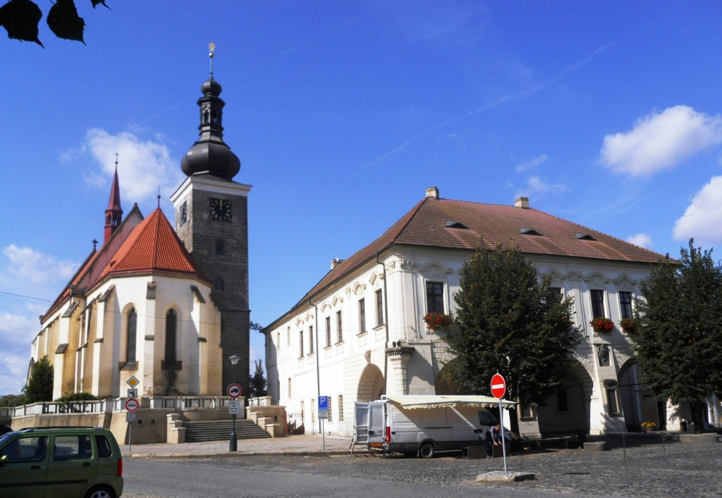 Velvary, St. Catherine church and Town hall